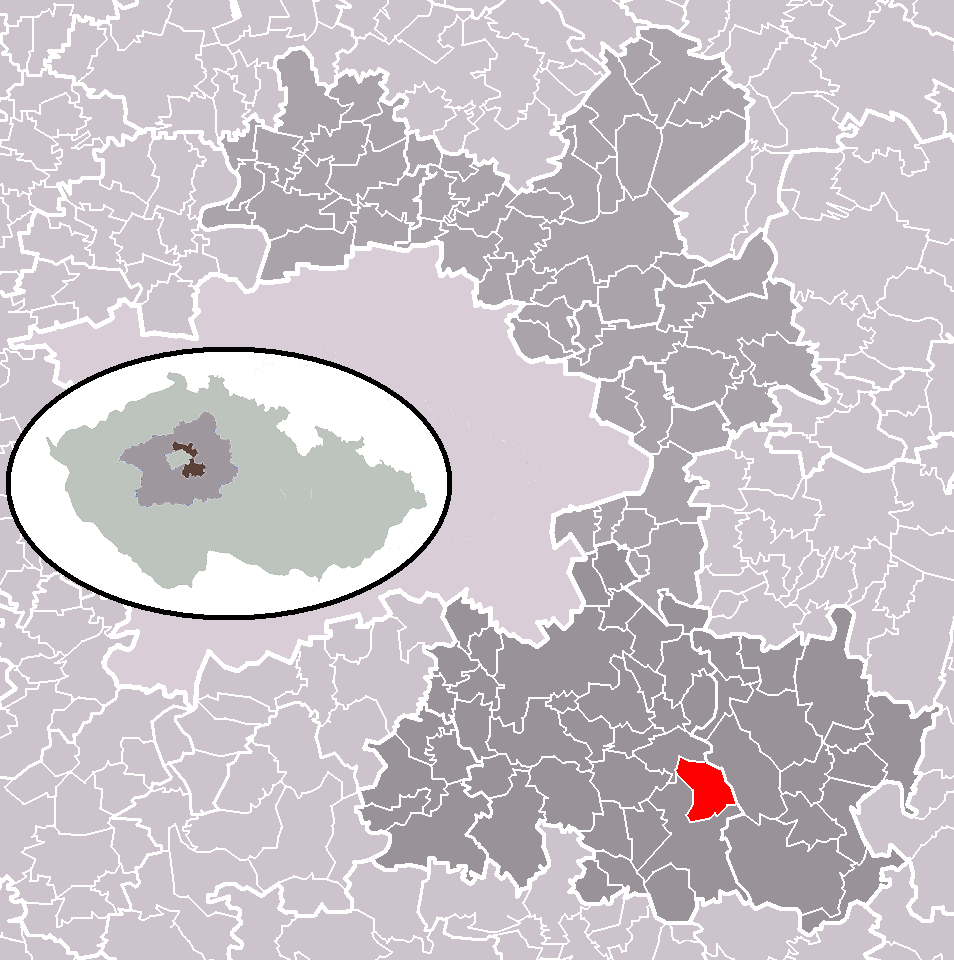 Location of Zvánovice municipality within Prague-East District and administrative area of Říčany as a Municipality with Extended Competence.